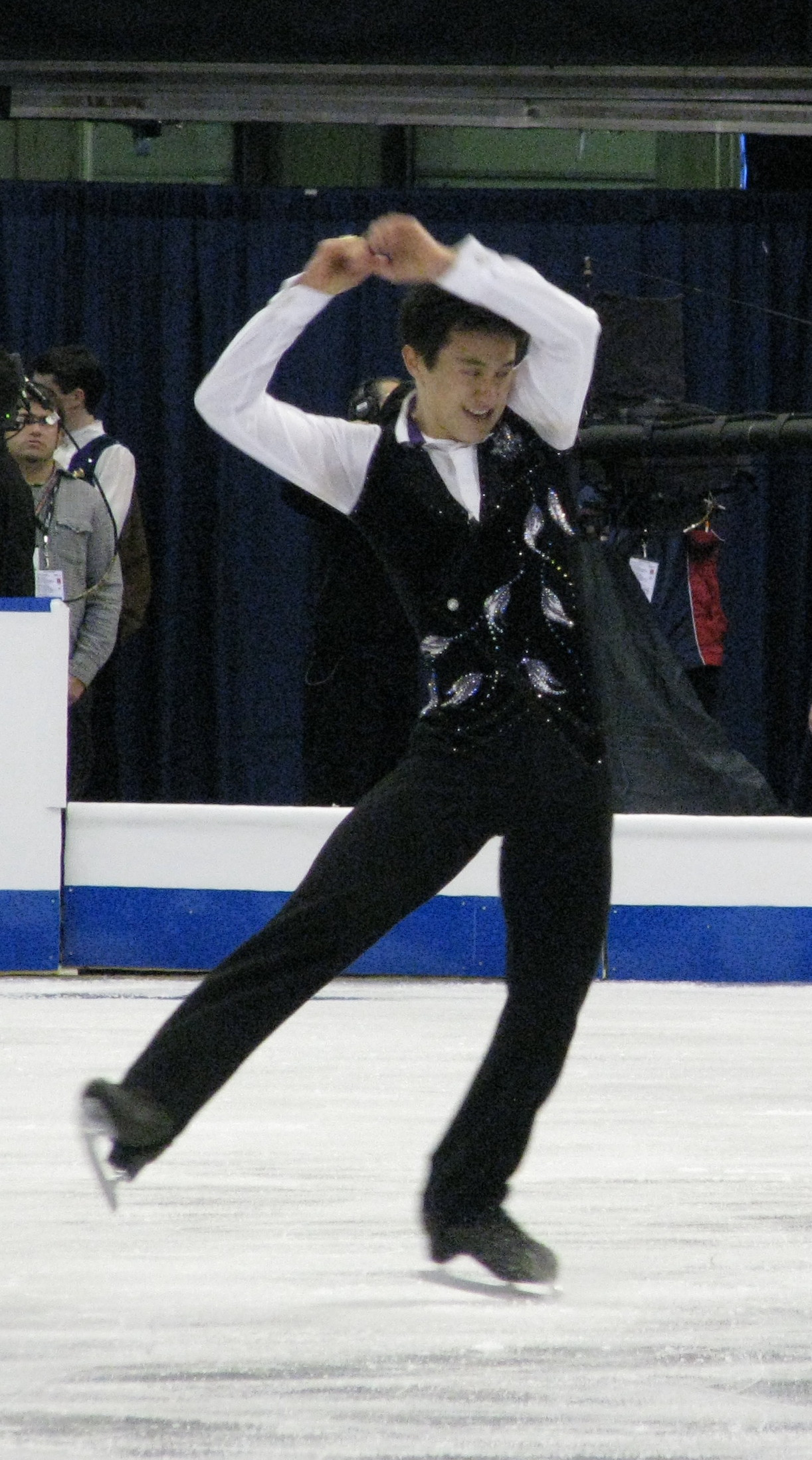 Patrick Chan competes his short program at the 2008 Skate Canada in Ottawa, Ontario, Canada